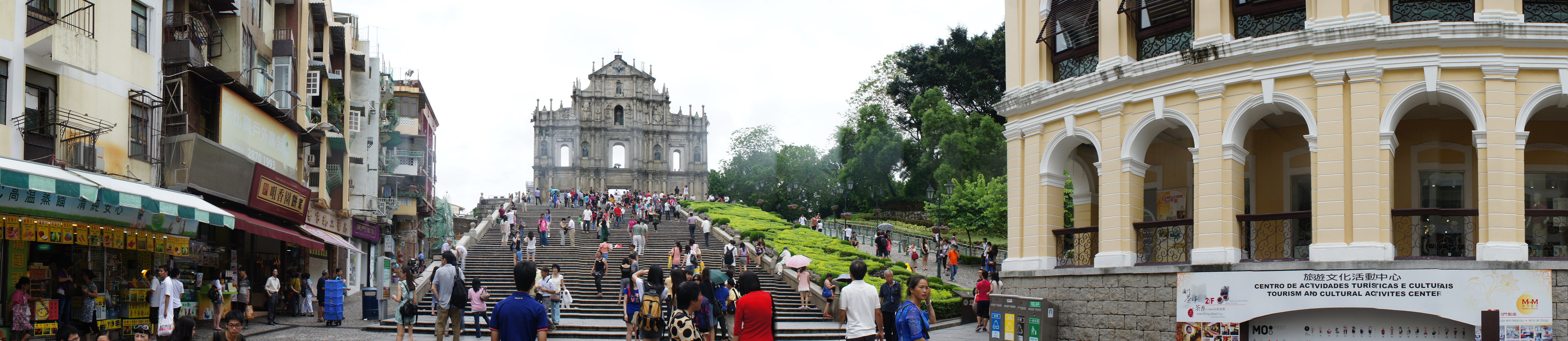 Panorama of Ruins of St Paul's from the front of façade, taken in June 2012.